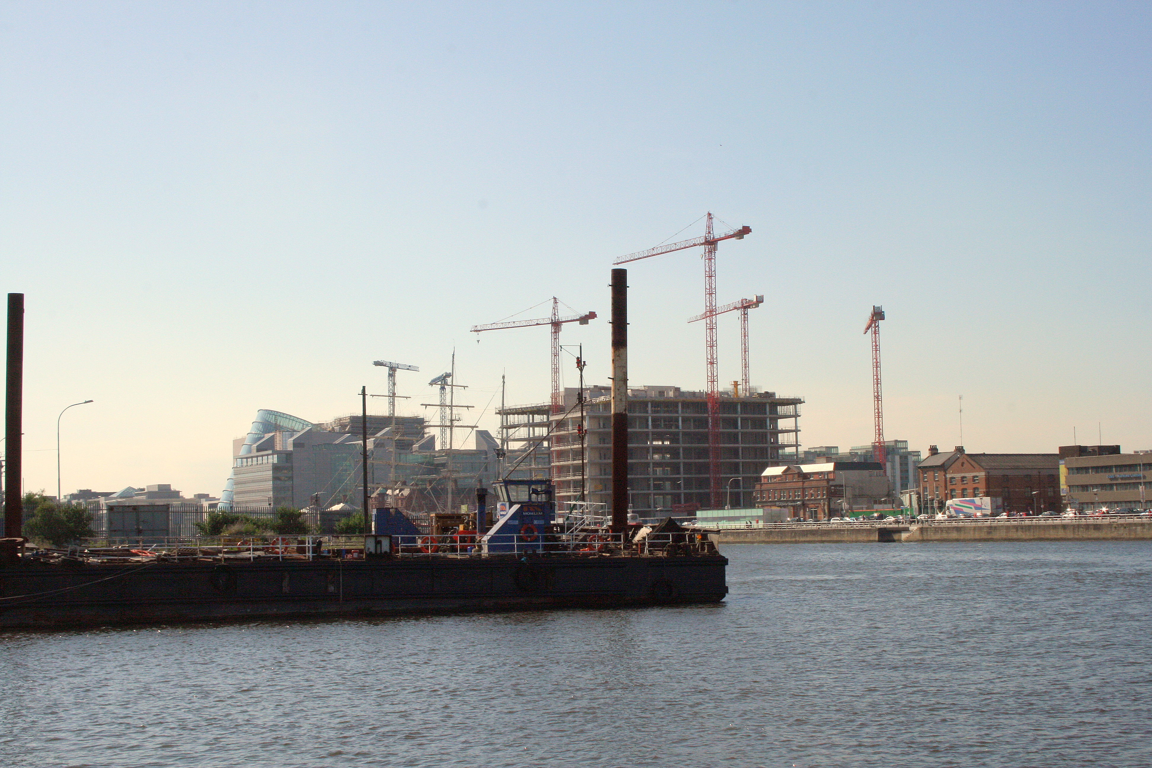 Britain Quay in the foreground, site of the proposed "U2 Tower". In the background, across the River Liffey is North Wall Quay and the National Conference Centre (under construction).